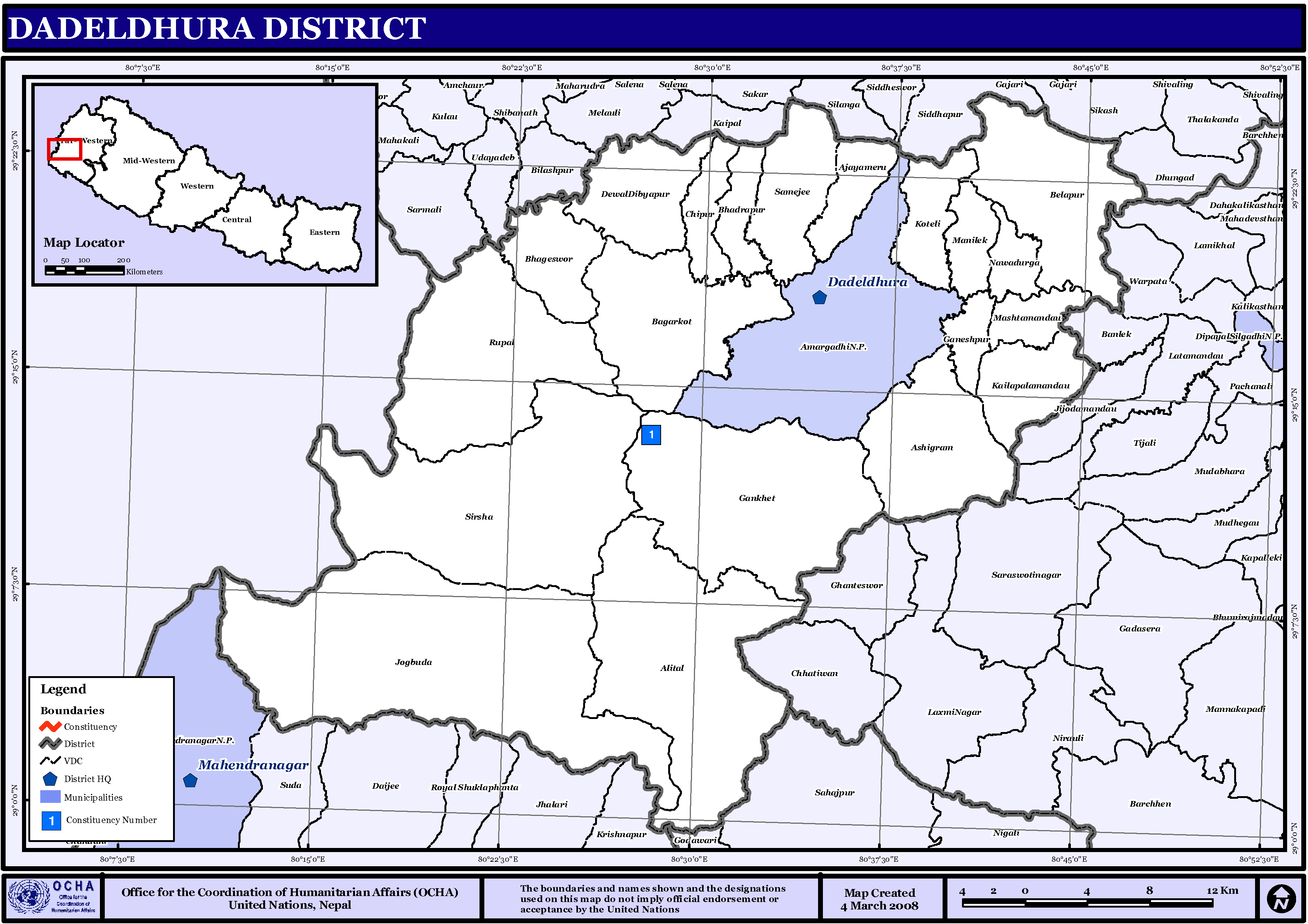 Map displaying Village Development Committees in Dadeldhura District, Nepal